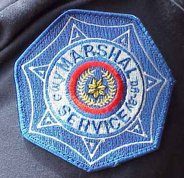 Photo of the Cherokee Nation Marshal's patch in 2001